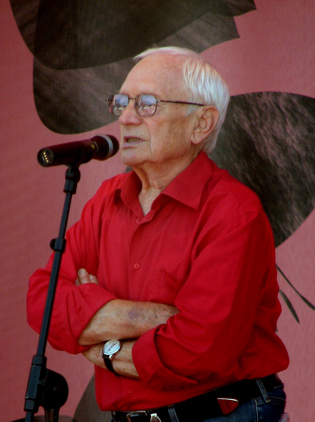 Witold Pyrkosz during IV Meeting Of Fans of the TV Series "M jak miłość" in Gdynia 2010. "M jak Miłość" in exact translations: "L as Love".